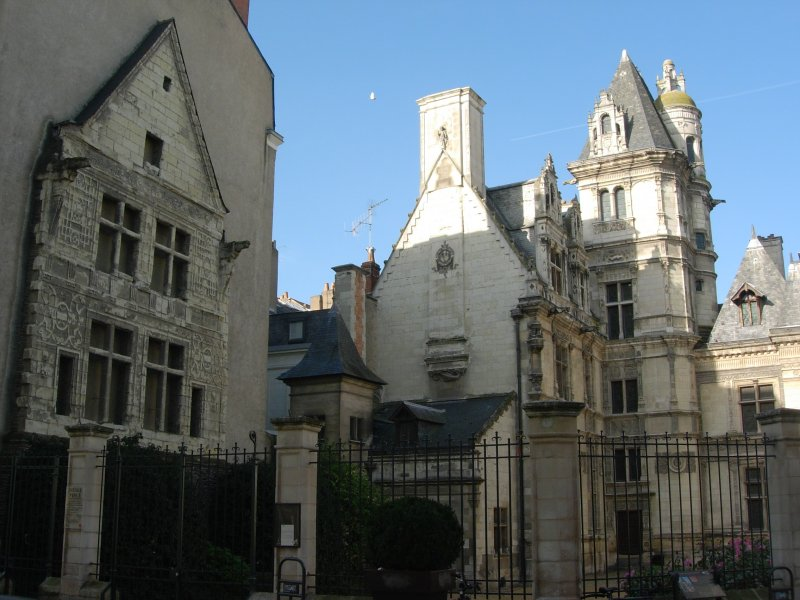 Hôtel Pincé à Angers, construit au XVIe siècle par Jean Delspine (1505-1576).